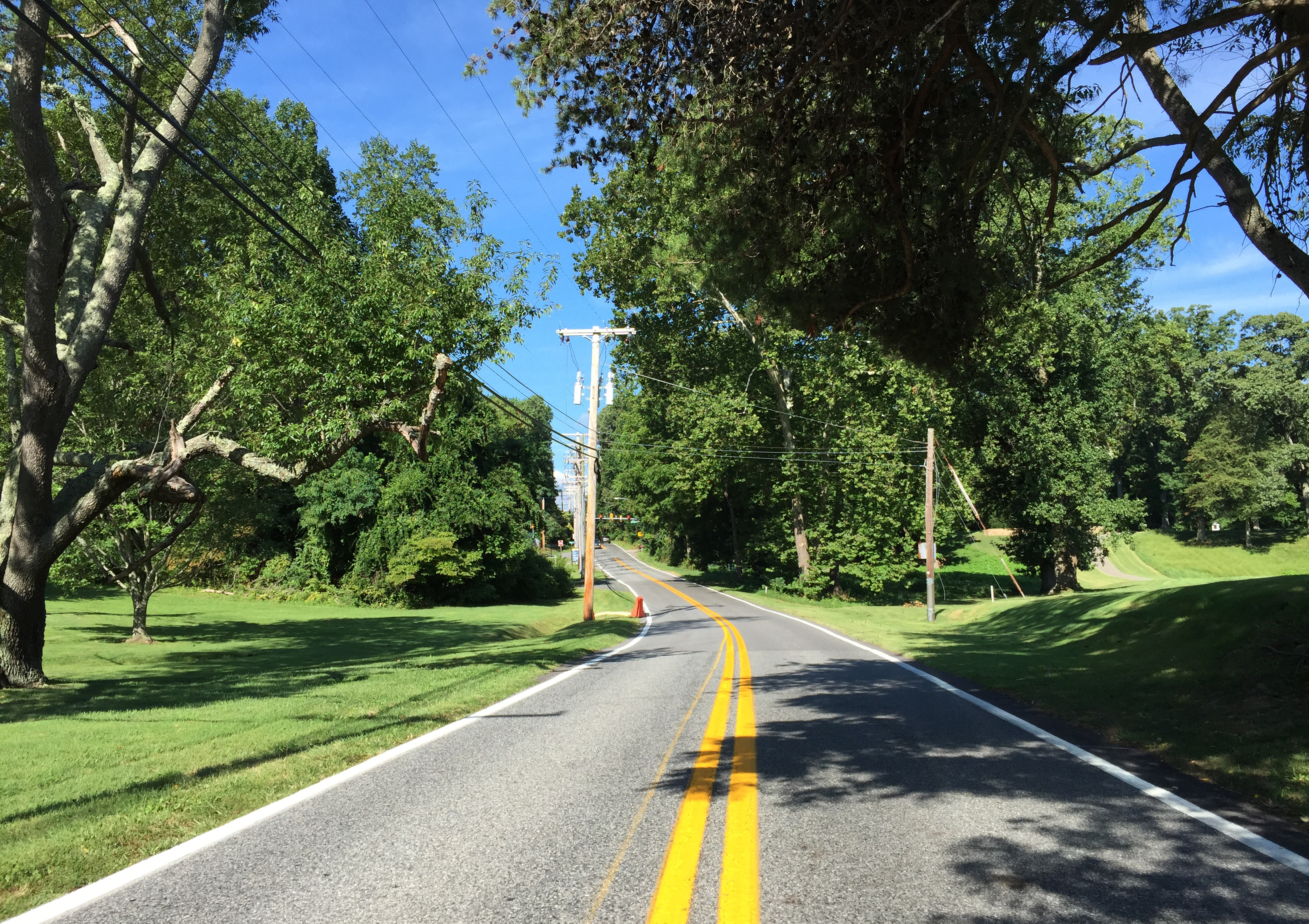 View west along Maryland State Route 672 (Greenbury Point Road) between Providence Road and Kinkaid Road in Pendennis Mount, Anne Arundel County, Maryland